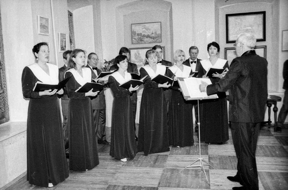 The Choir of sacred music «Blagovest» (Annunciation) with choirmaster Vasiliy Vasilyevich Sandin performs at the opening of the exhibition of Evgeniy and Ilya Putyatin in the House of Artists. 10 Rostovskaya Street, Pereslavl. The choristers from left to right: Tatyana Borisovna Korolyova (second soprano), Olga Borisovna Rushalscshikova (first soprano), Natalya Ivanovna Popova (first soprano), Elena Nikolayevna Sokolova (alto), Natalya Veniaminovna Salnikova (alto), Medeya Georgiyevna Khimshiashvili (alto), Pyotr Ivanovich Popov (tenor), Vyacheslav Vladimirovich Prechistensky, a man, Mikhail Mikhailovich Vologdin (basso), Vitaliy Vasilyevich Kuzmin (basso).